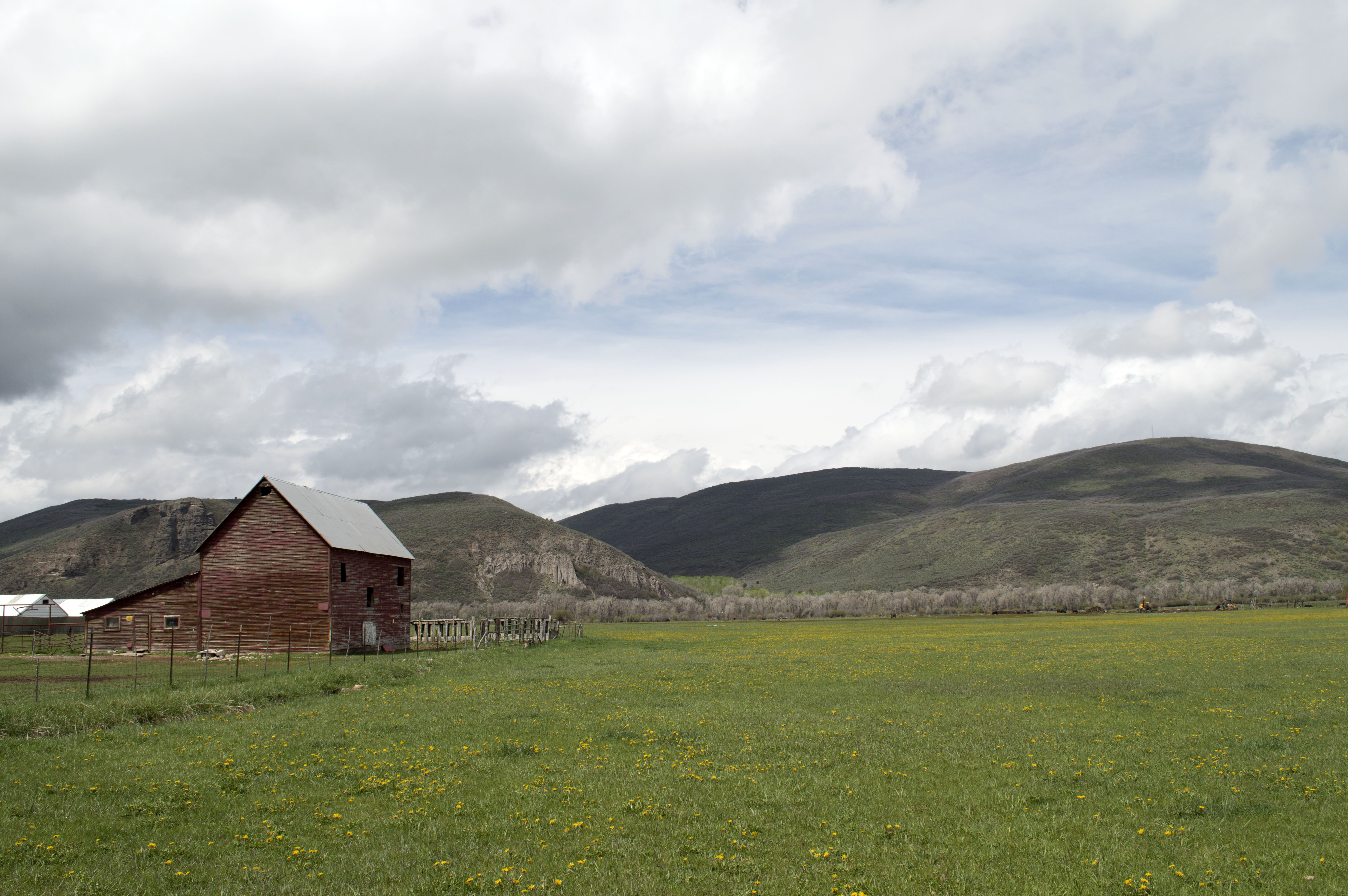 Looking west from Woodenshoe Lane are a few important geographical landmarks- meadows for grazing, cottonwood trees following the course of the Weber River, and the West Hills, which are spurs of the Wasatch range.